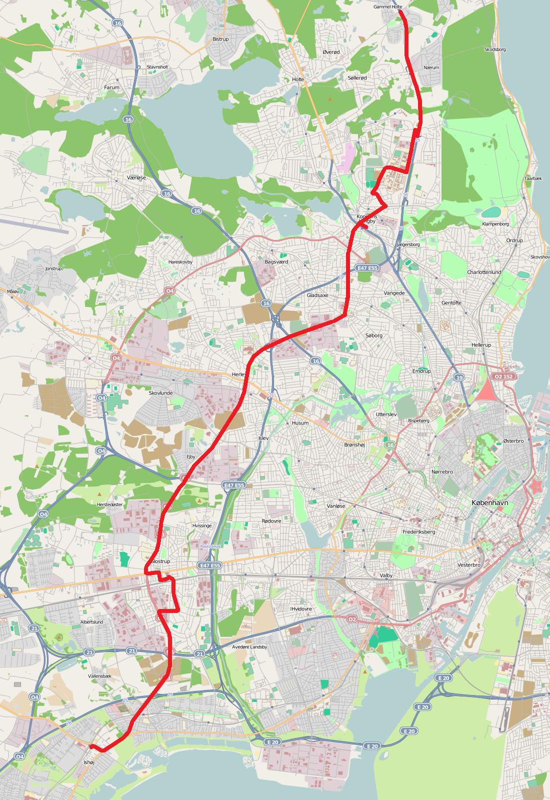 Map of Copenhagen bus line 300S between Gammel Holte and Ishøj Station as of 27 March 2016.